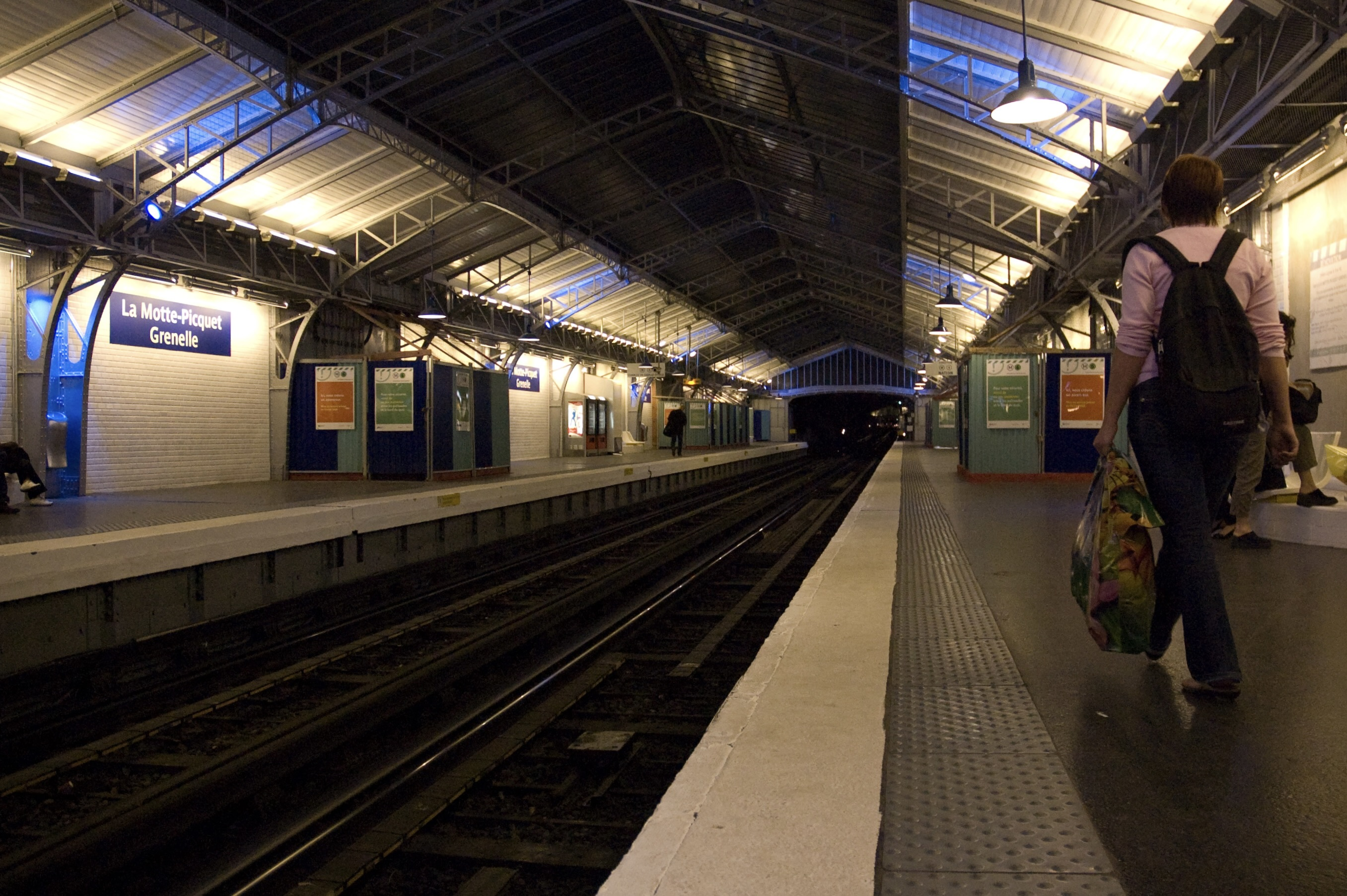 This image seems very divided. Imho a cool effect that I did not discover until after I looked at the picture in my computer much later :) - La Motte-Picquet - Grenelle (Paris Metro line 6)